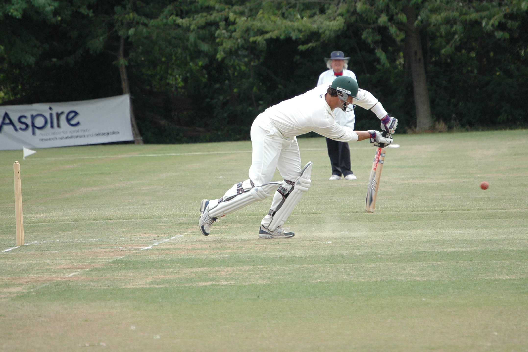 New Zealand cricketer Chris Cairns batting